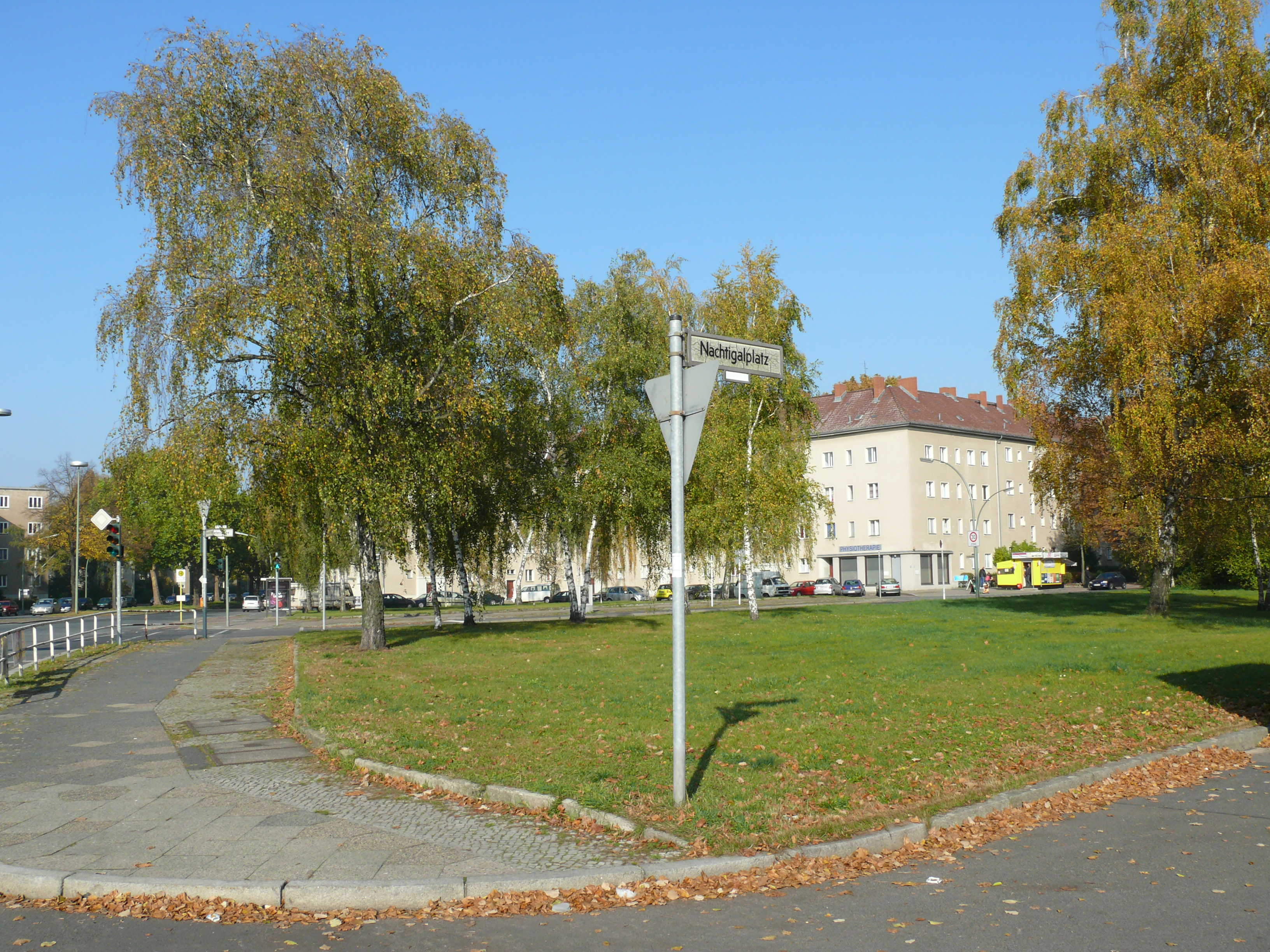 Berlin-Wedding Nachtigalplatz